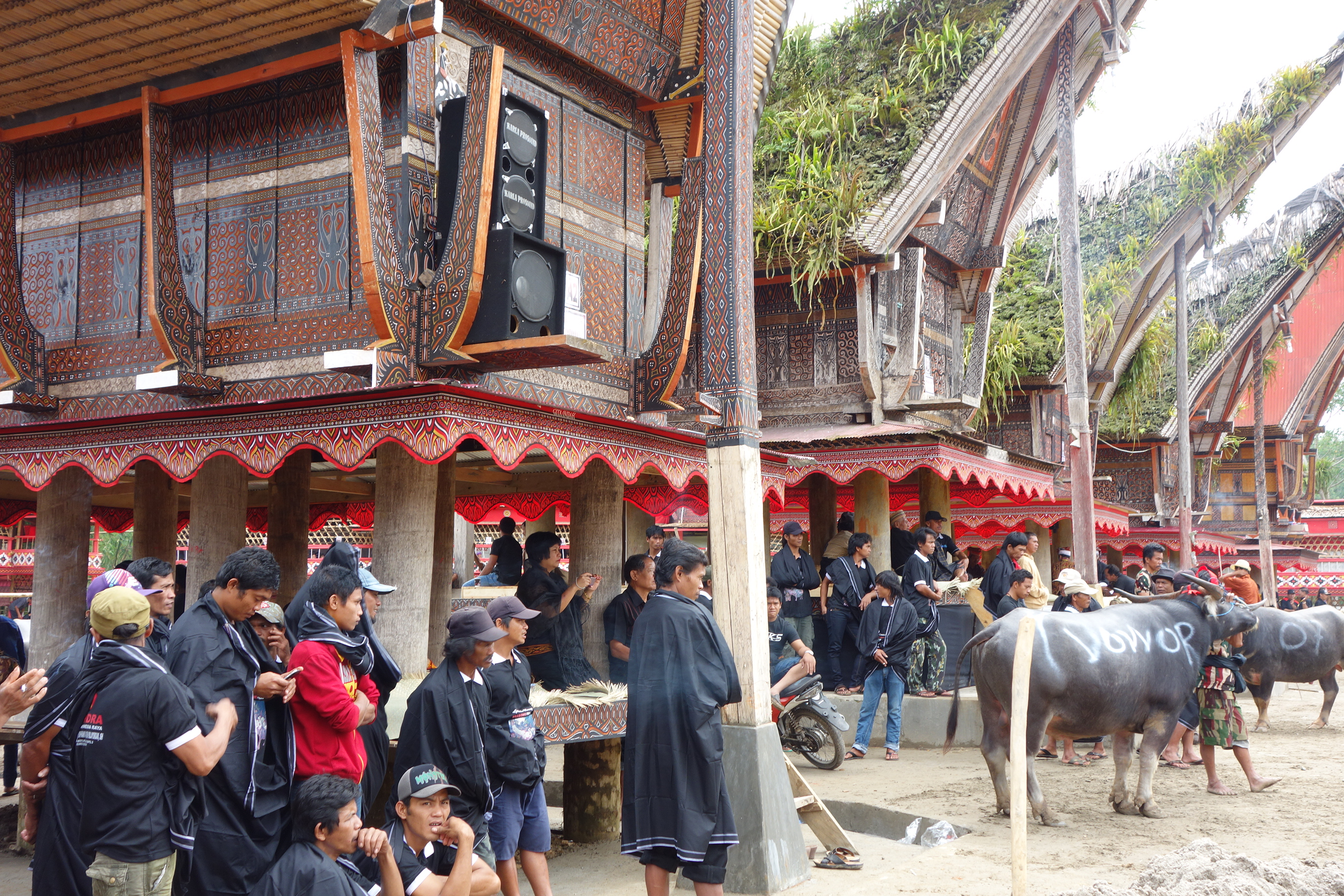 Preparation to Toraja wake ceremony (Rantepao community)